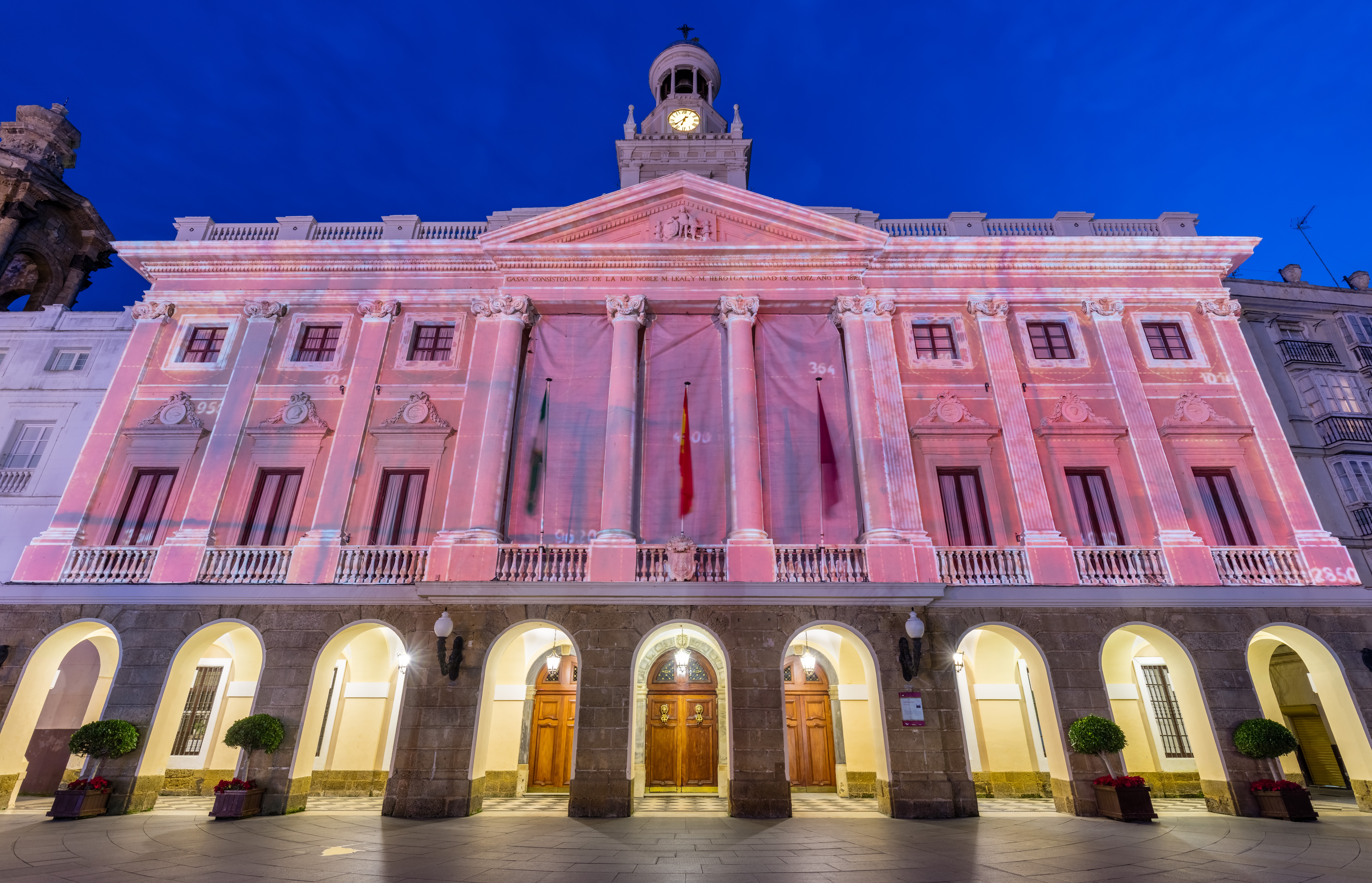 Town hall of Cádiz, Spain